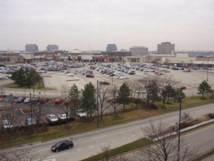 Photo of view of Woodfield Mall, Schaumburg, Illinois, USA